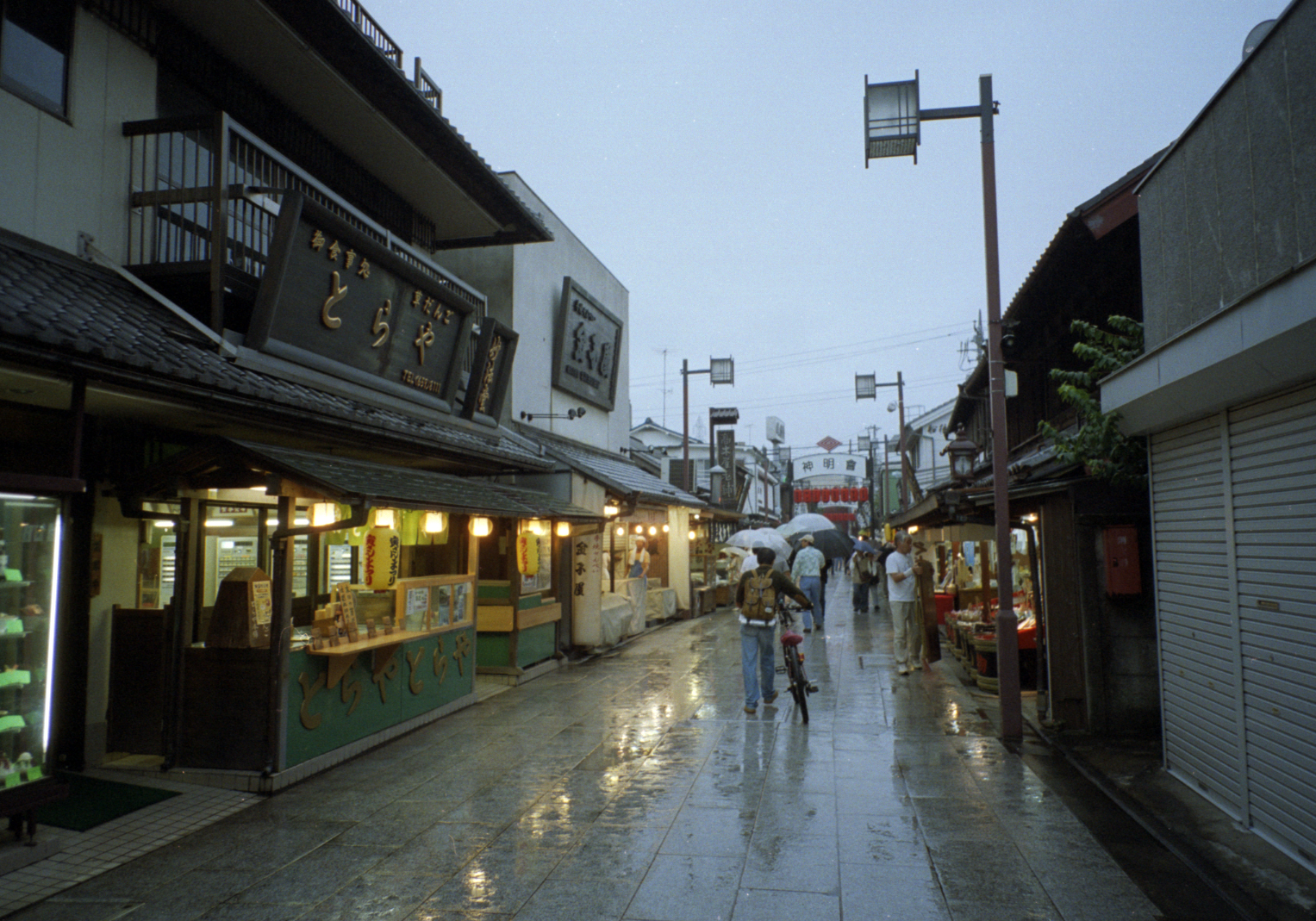 The street of Shibamata which leads to Taishakuten Temple. cf. the map.